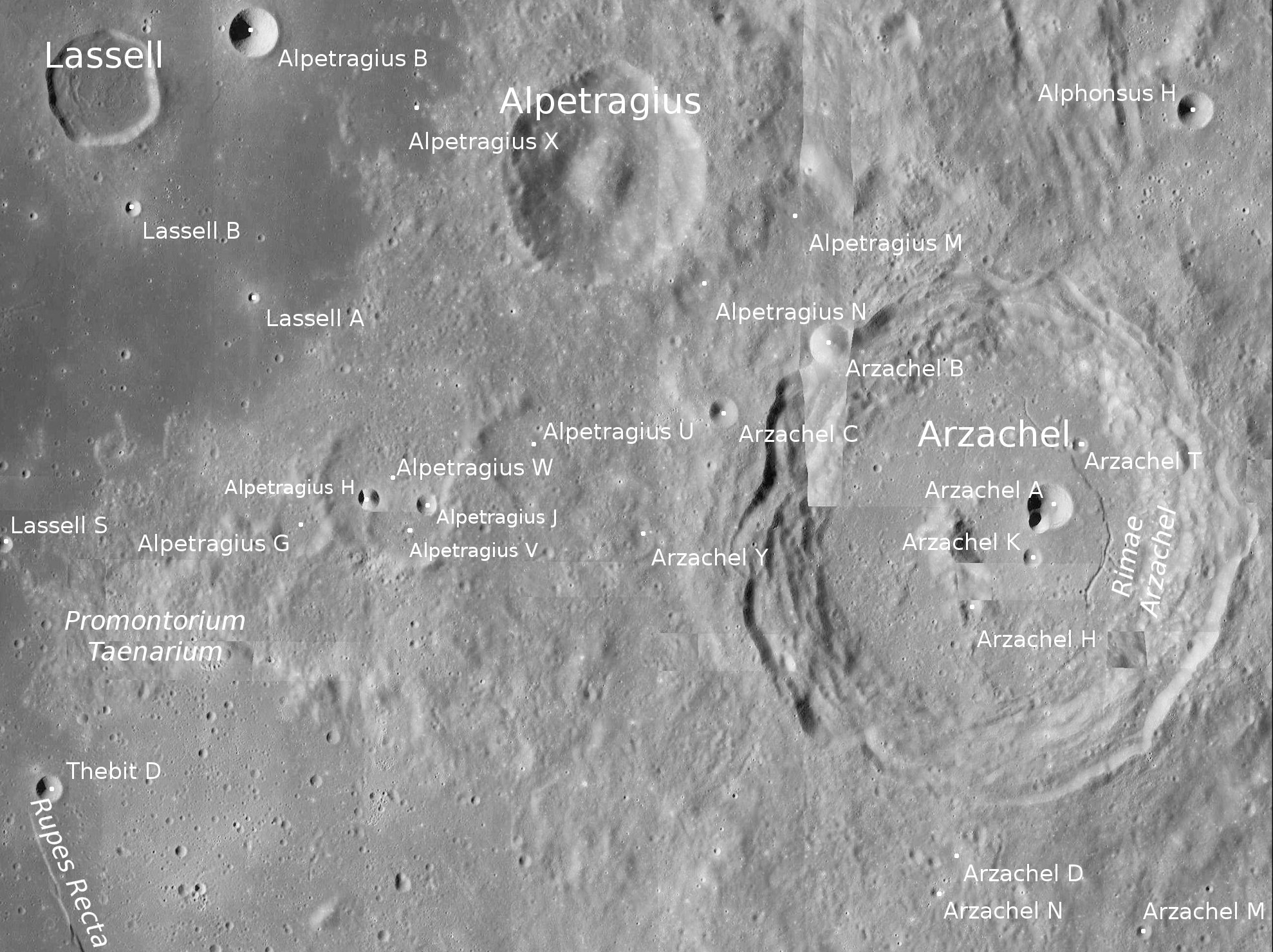 Craters Arzachel and Alpetragius with Promontorium Taenarium (detail of LRO - WAC global moon mosaic; Mercator projection)